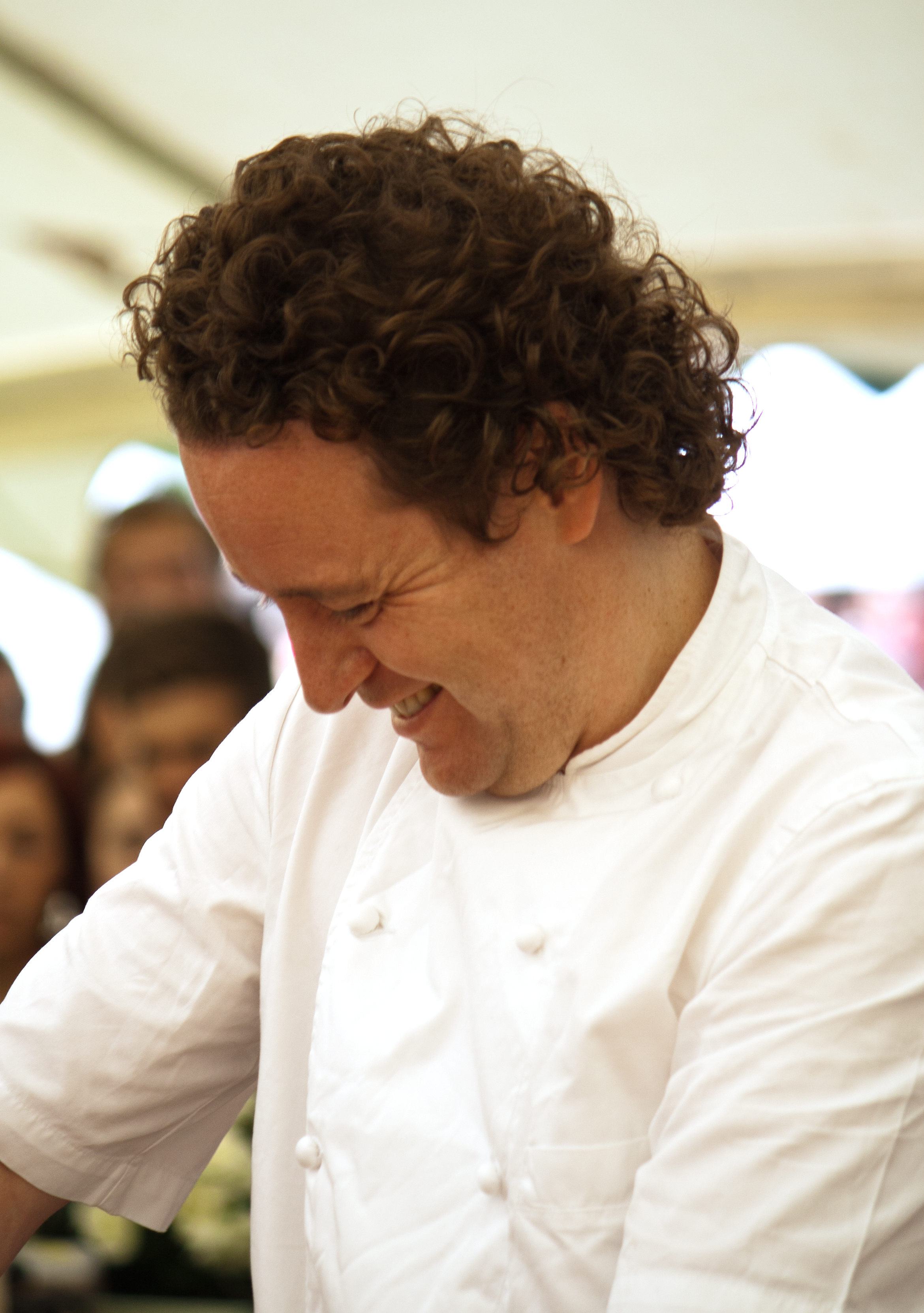 Tom Kitchin, is a Scottish chef and owner of restaurant The Kitchin, where he became the youngest winner of a Michelin star. He had previously worked with several Michelin starred chefs including Alain Ducasse and Pierre Koffmann